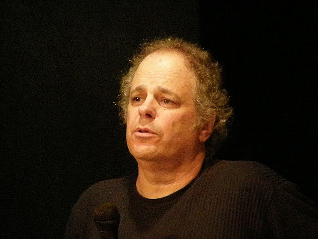 Michael Albert at Babylonmedia's international anti-authoritarian festival "B-Fest" at Athens, Greece, May 2009.